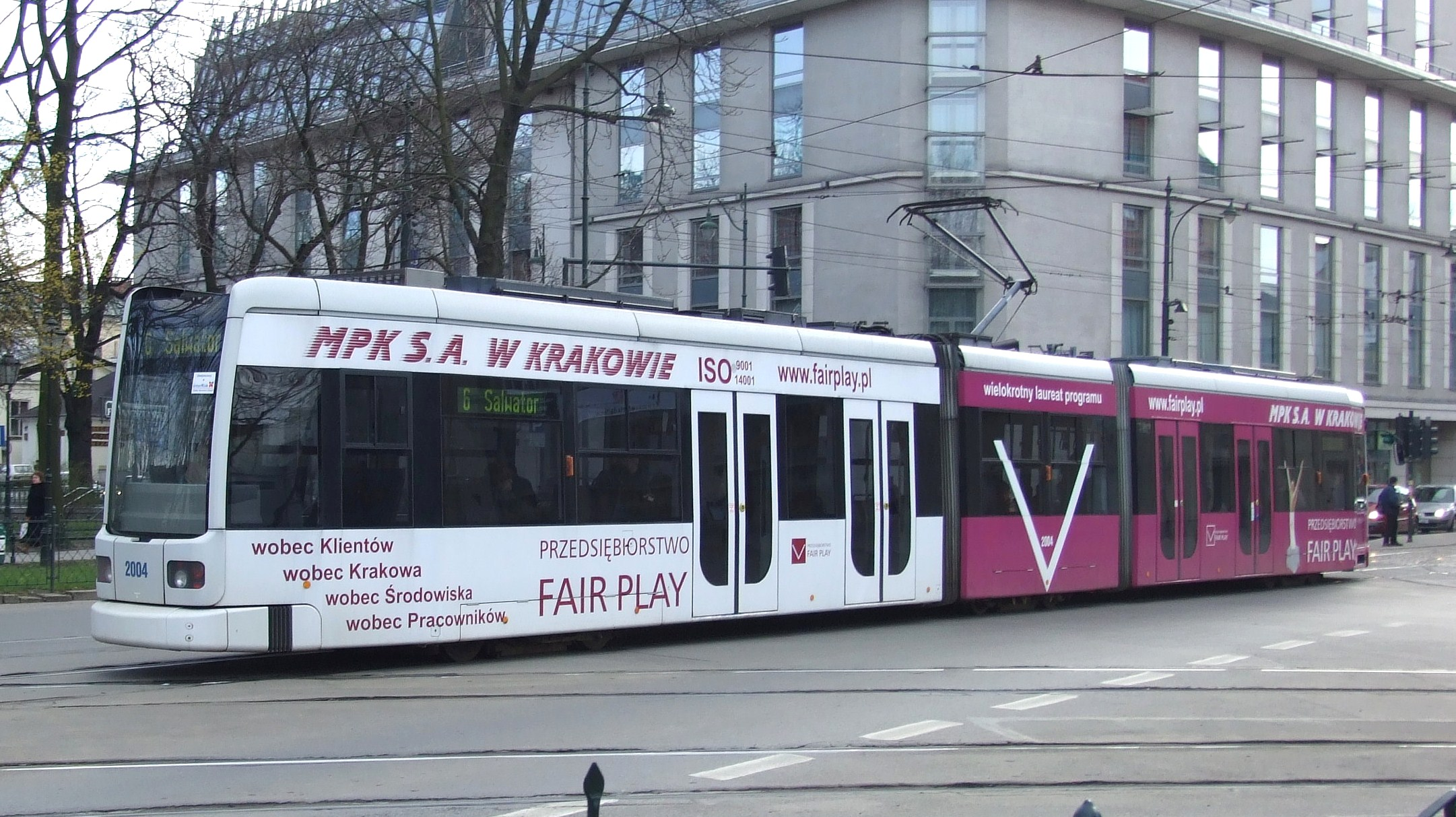 A Bombardier NGT6-2 tram in Kraków (Poland).